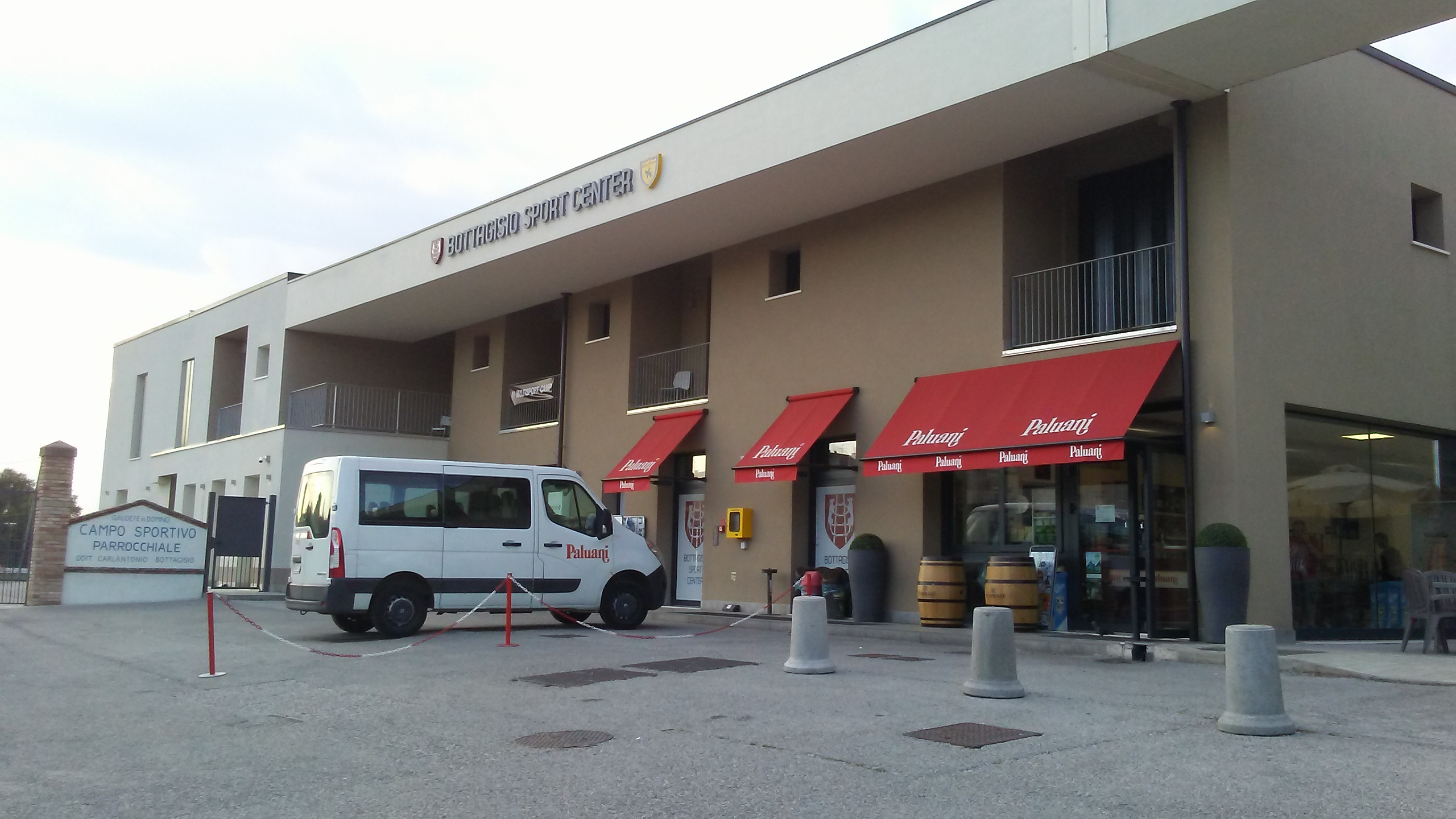 Multifunctional sport center - Bottagisio Sport Center in Chievo